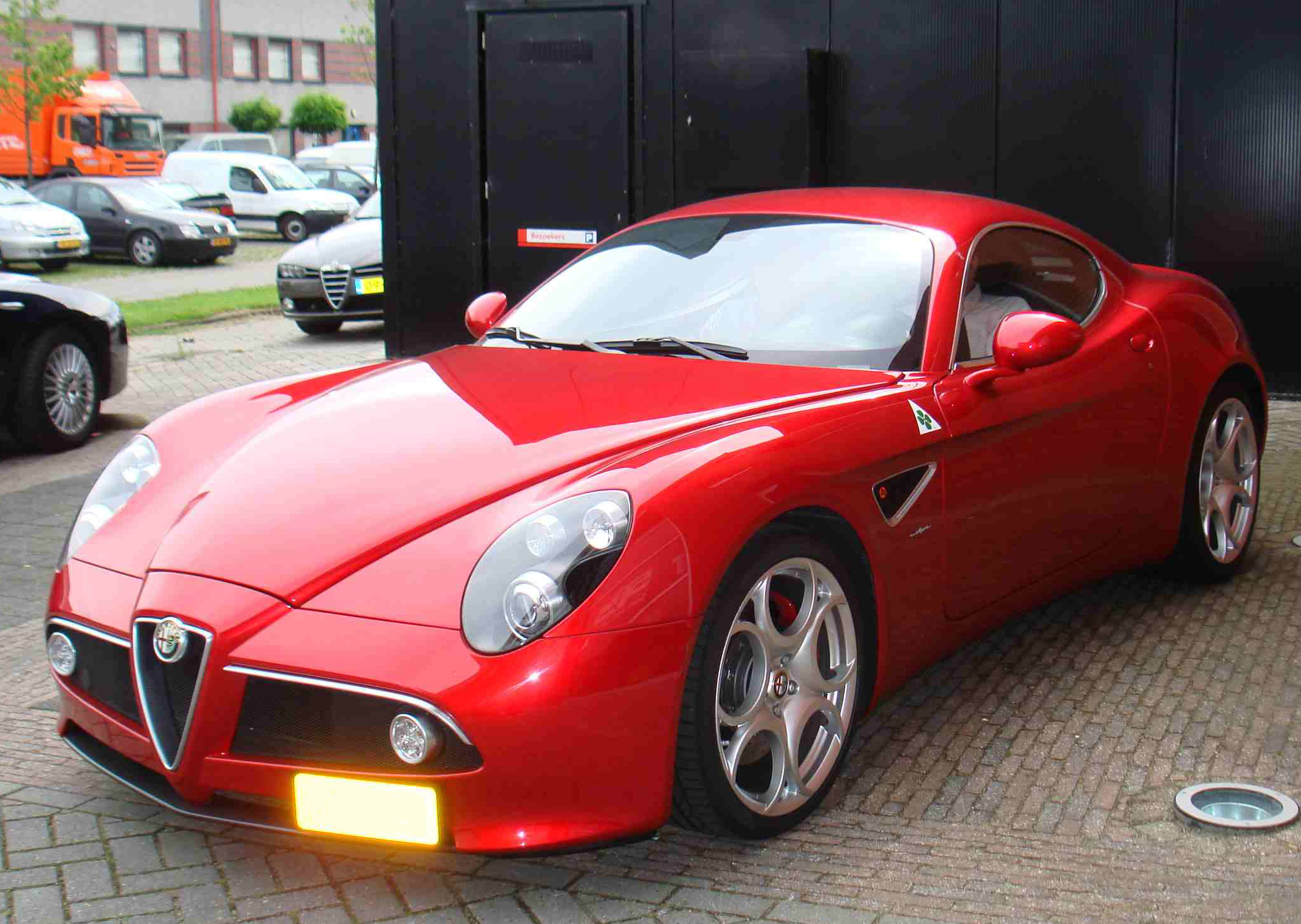 Alfa Romeo 8C Competizione